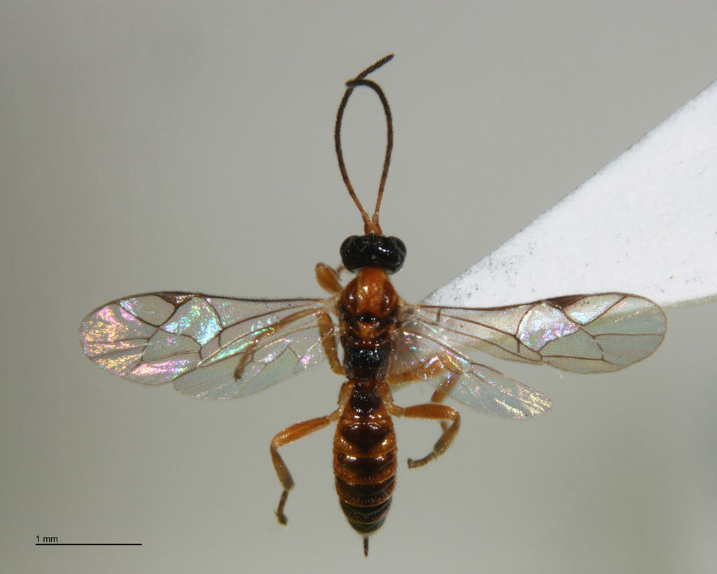 Adult female Zatypota anomala (RMNH.INS.593866), specimen.